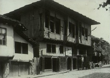 Album with photos of houses, churches, public buildings, industrial enterprises in Gabrovo, Bulgaria.